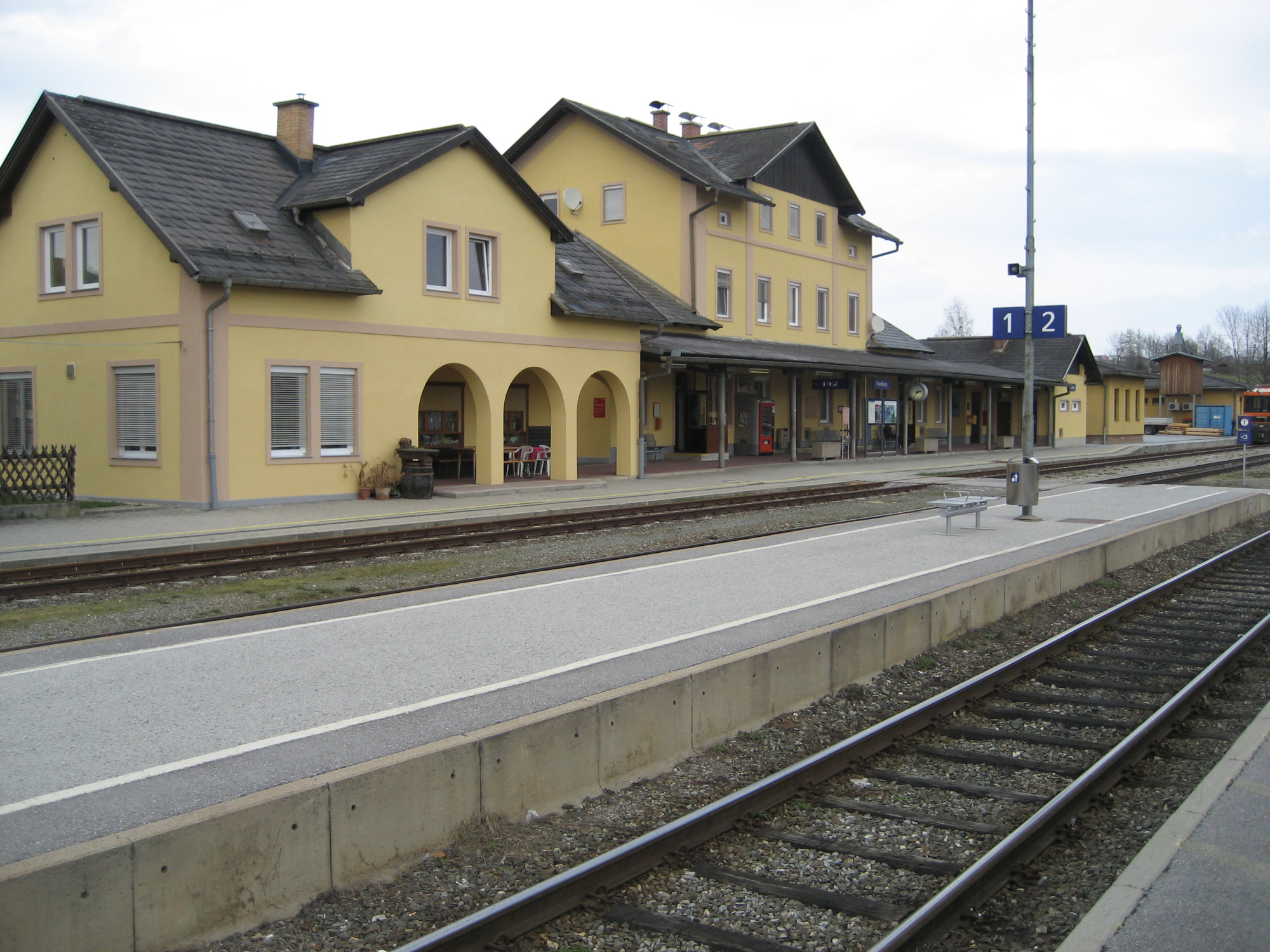 train station Friedberg in Styria